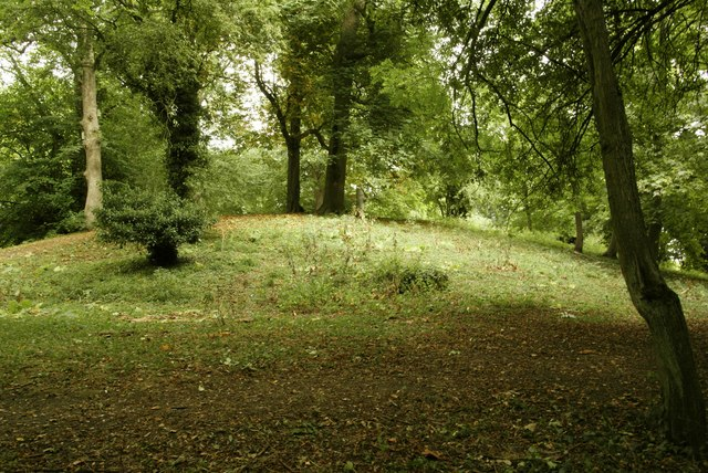 King John's Castle, Kineton This shallow mound is all that remains of the former motte and bailey castle thought to date from the time of King John. It is much reduced in size from its heyday, when a timber-built castle and defensive ramparts allowed the king's men to control this route between London and the midlands. The area is now a nature reserve.